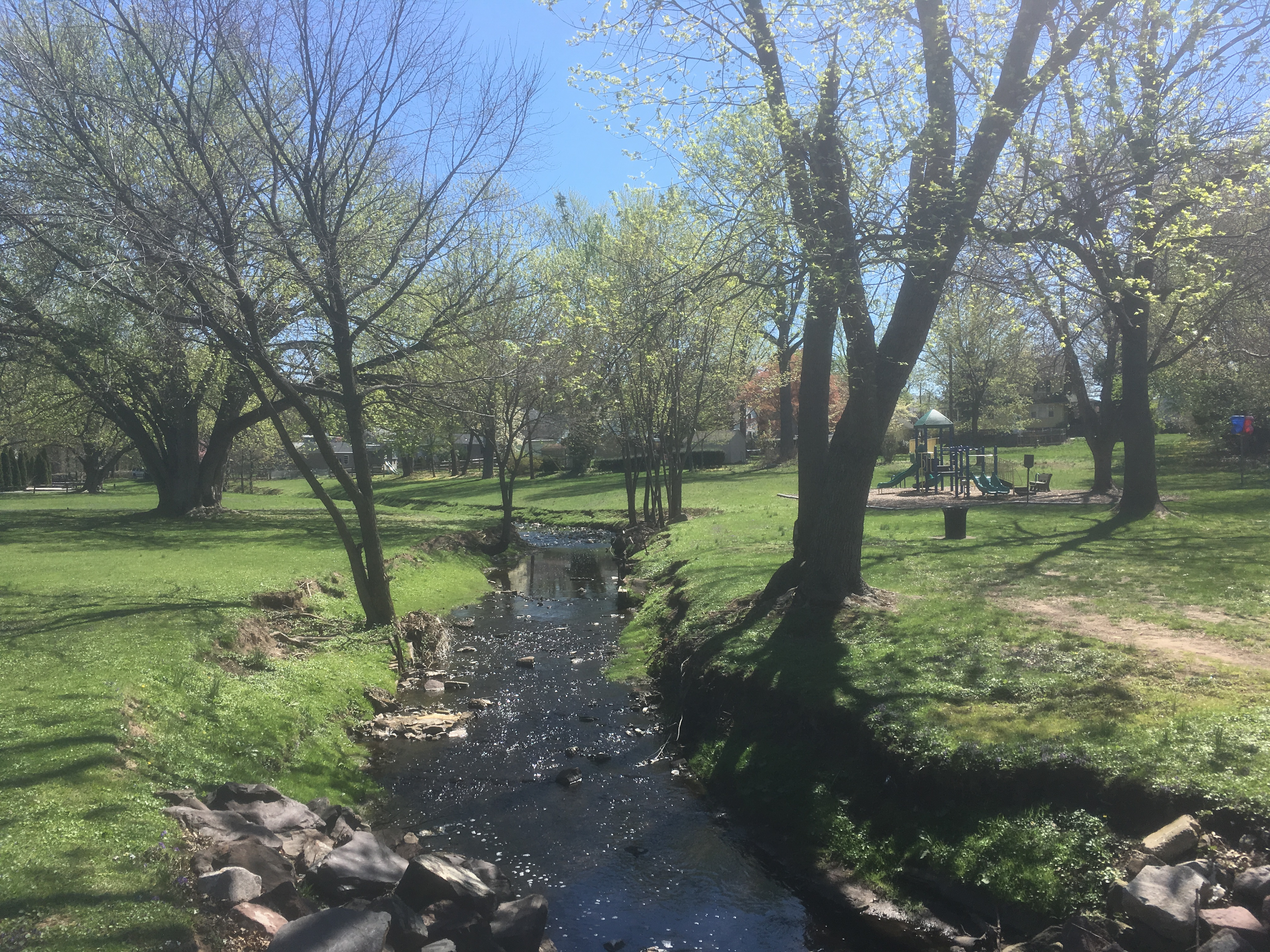 Hatboro Memorial Park in Hatboro, Pennsylvania